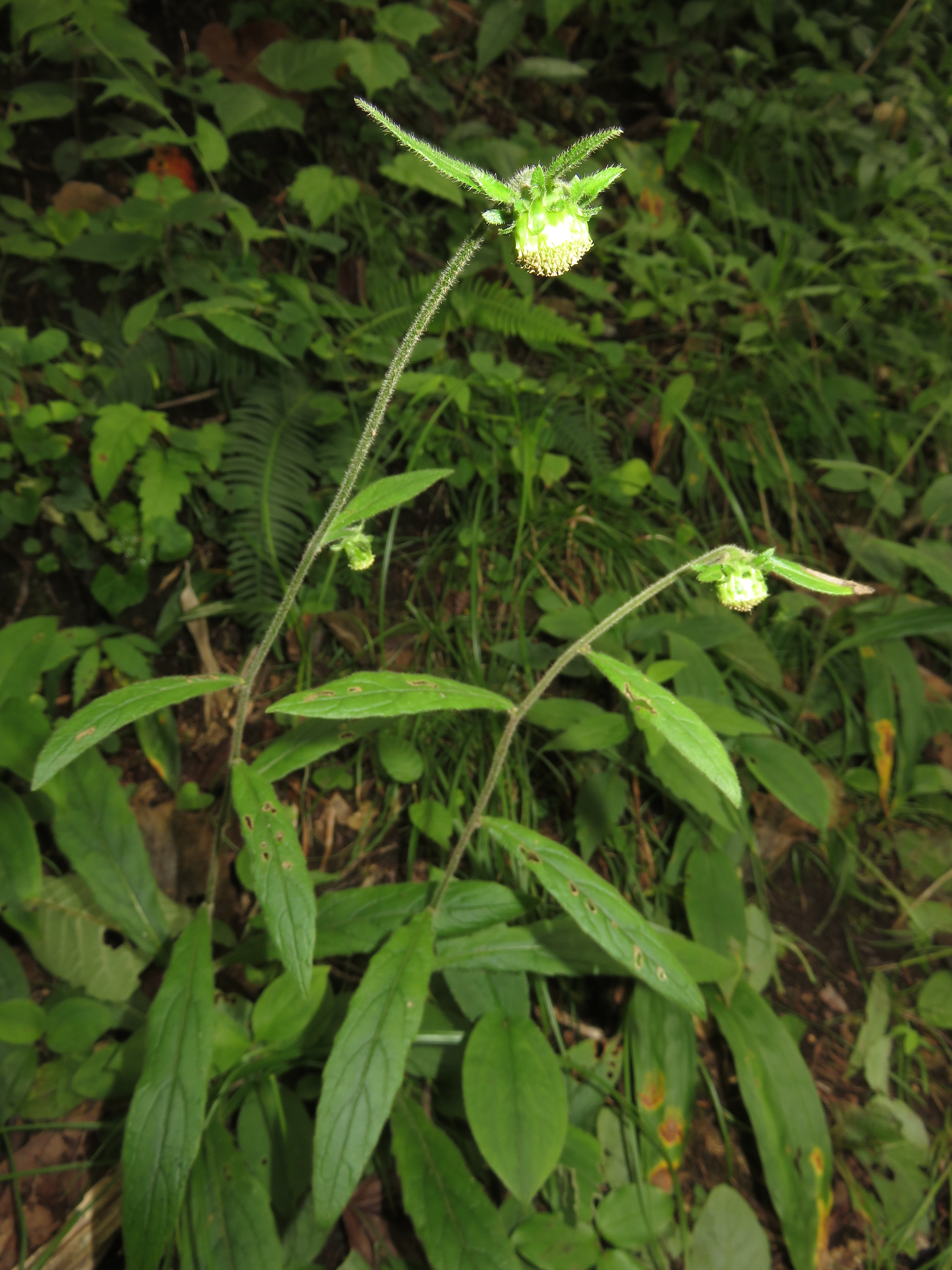 Carpesium glossophyllum, Aizu area, Fukushima pref., Japan